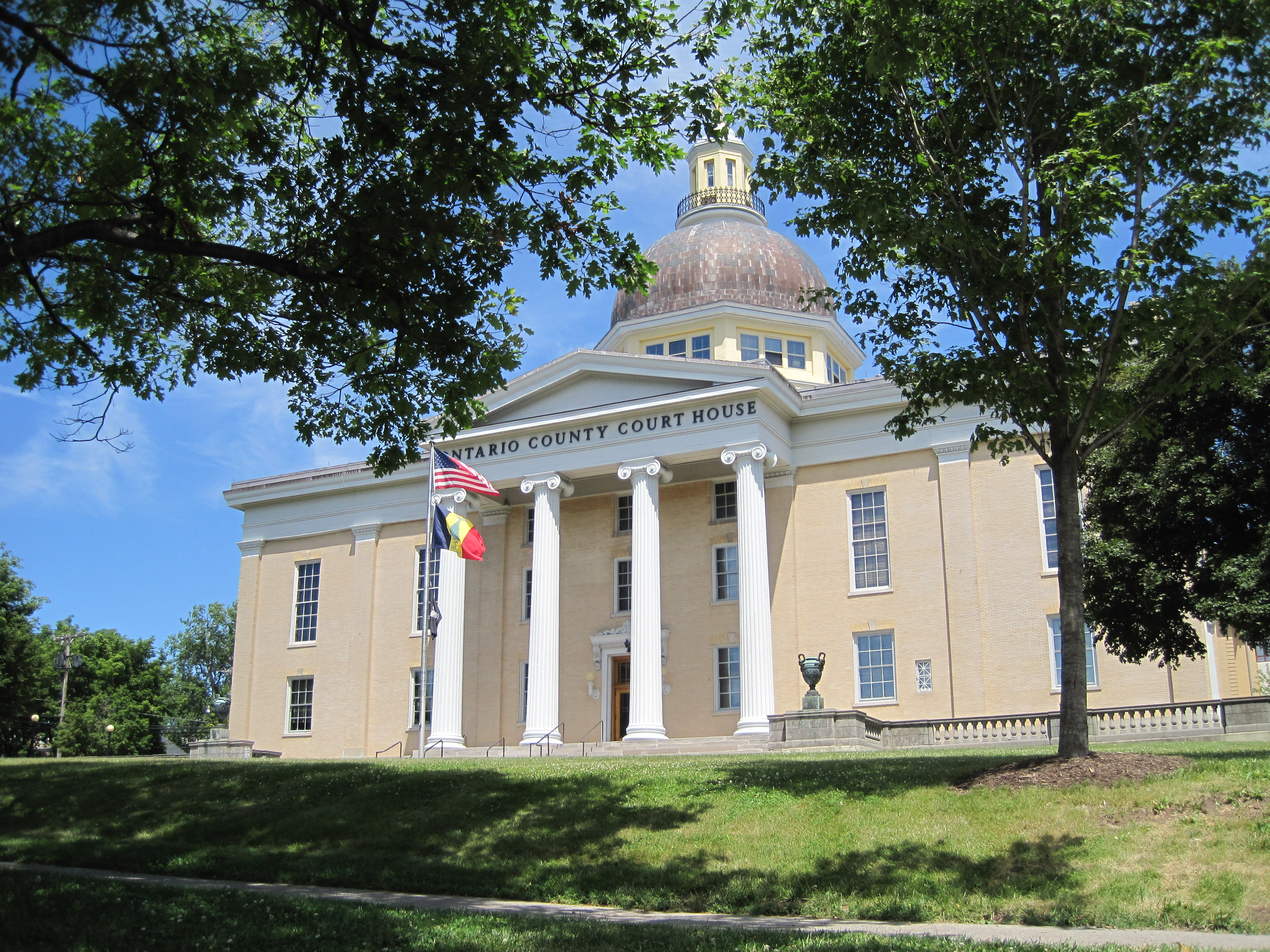 Ontario County Courthouse, Main St., Canandaigua, NY, USA